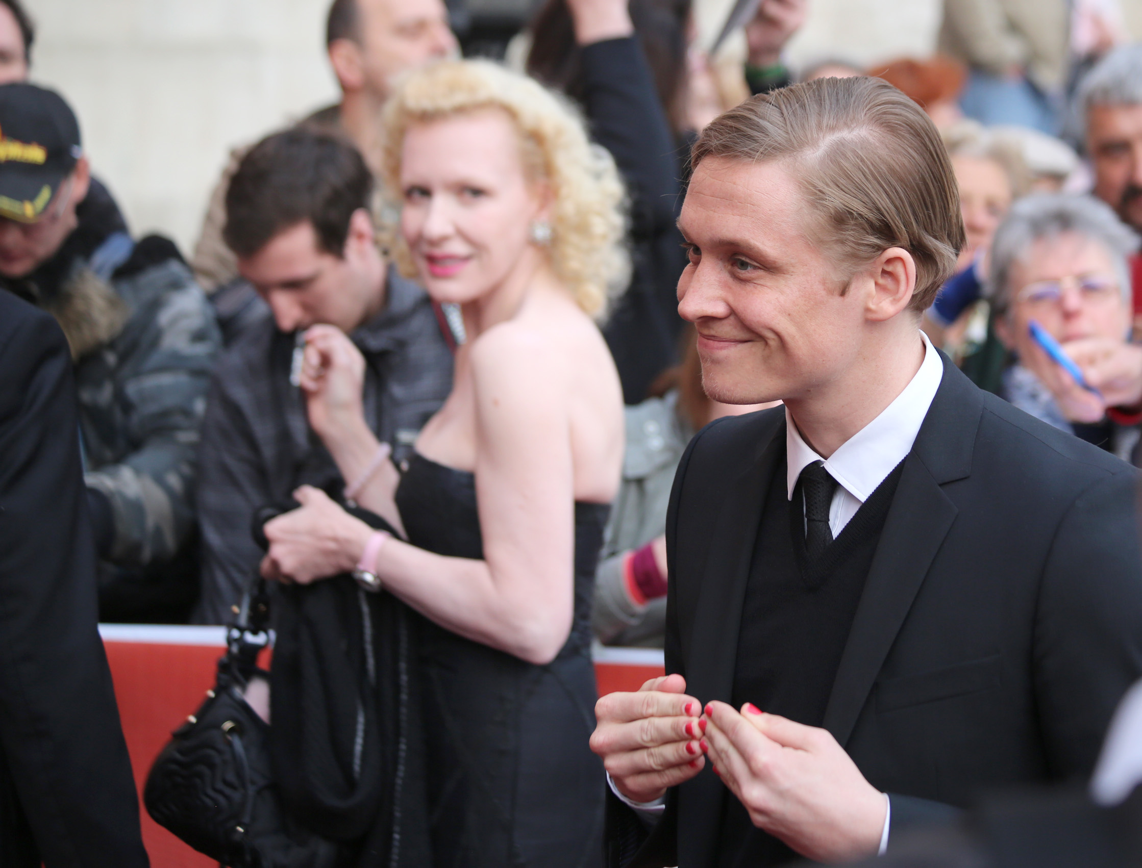 Matthias Schweighöfer und Sunnyi Melles at the Romy film awards (Hofburg Imperial Palace in Vienna)